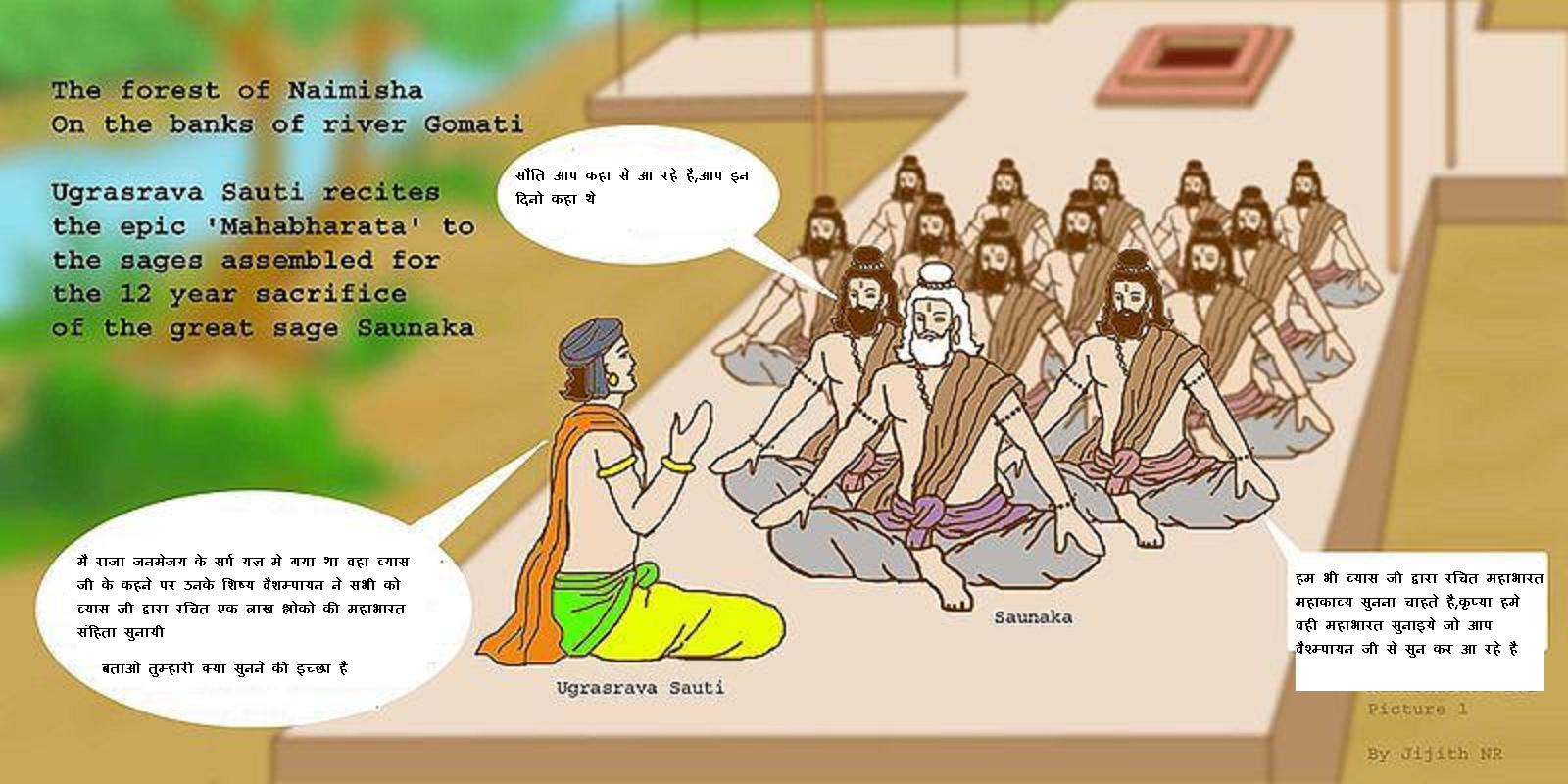 Painting showing Ugrasrava Sauti narrating Mahabharata to Saunaka and sages